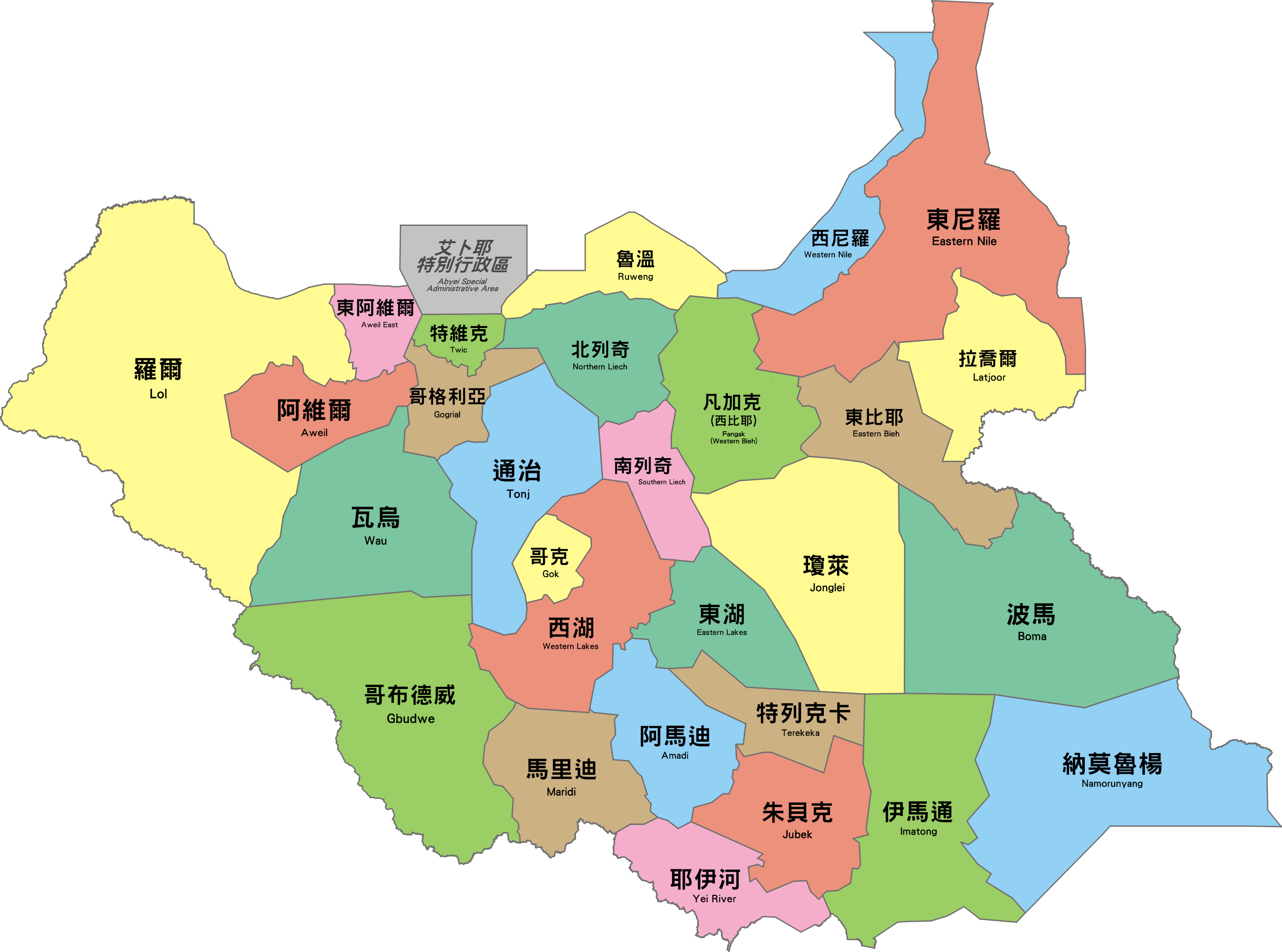 中文（台灣）: 南蘇丹2015年宣布的28州 Administrative map of South Sudan. Adapted from English-language version by Aotearoa.